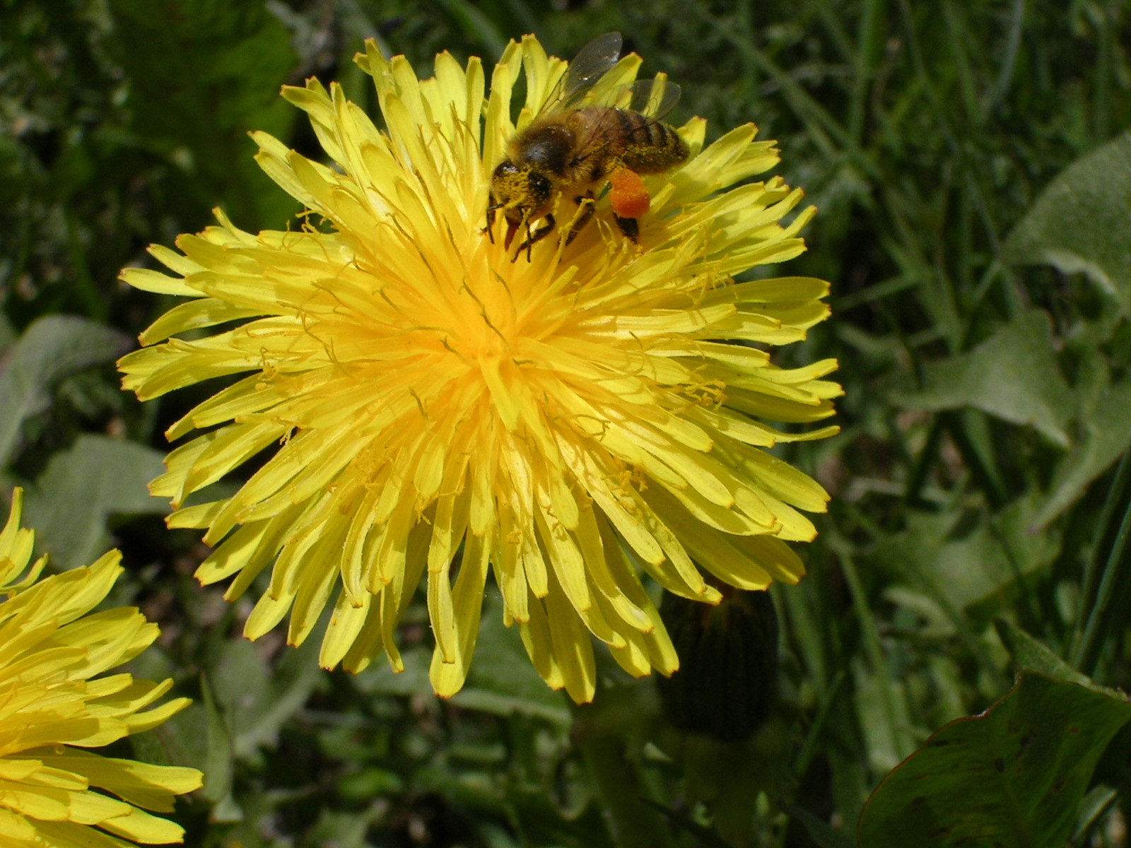 A bee on a dandelion